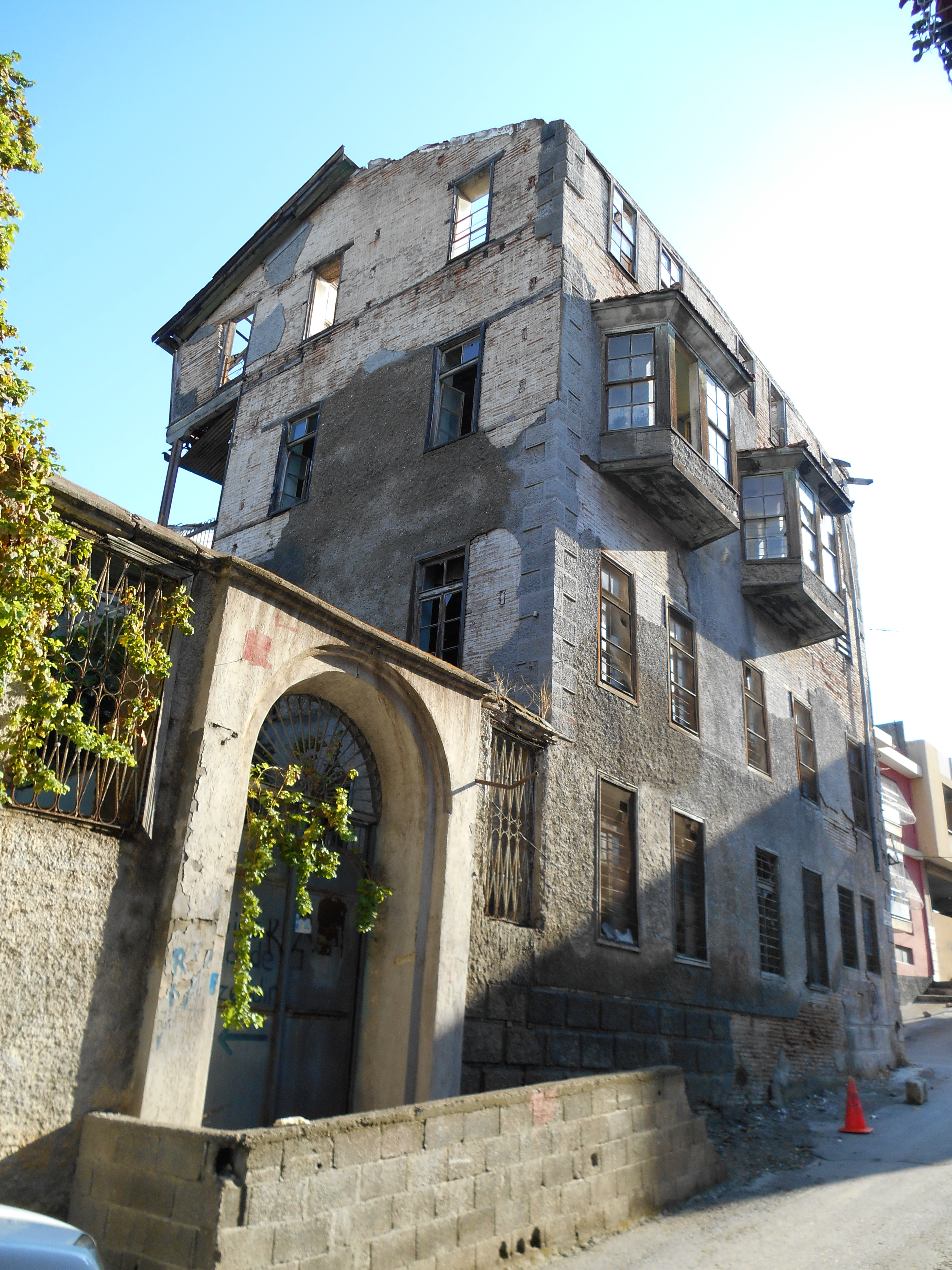 Street view